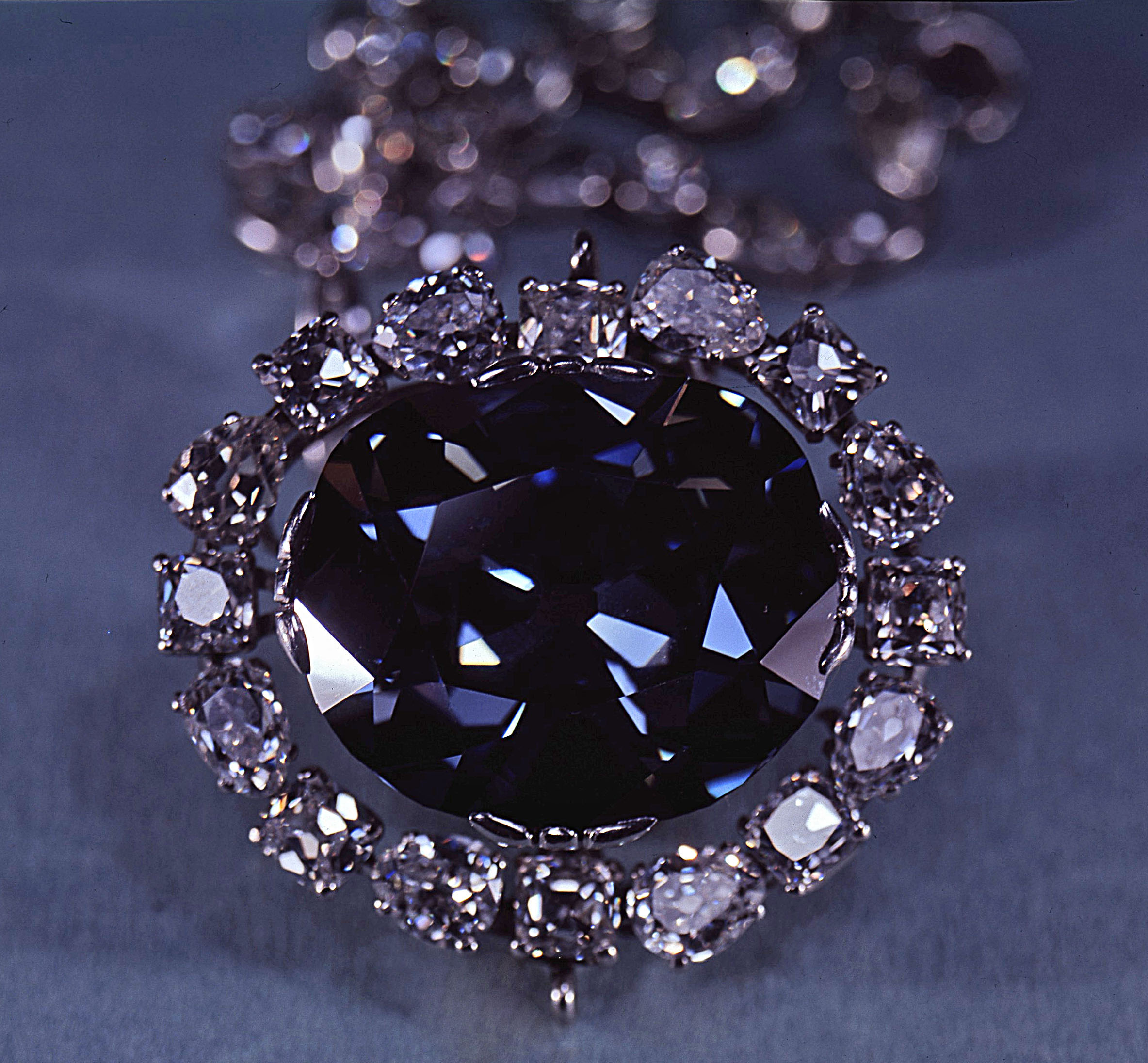 1974. The Hope Diamond, one of the largest of all blue diamonds, 45.52 carats, exhibited at the National Museum of Natural History. The gem is slightly lopsided, possibly because the bottom of the teardrop shape was cut away so that the original stolen jewel could not be identified. The setting is a circlet of smaller white diamonds on a chain of diamonds.